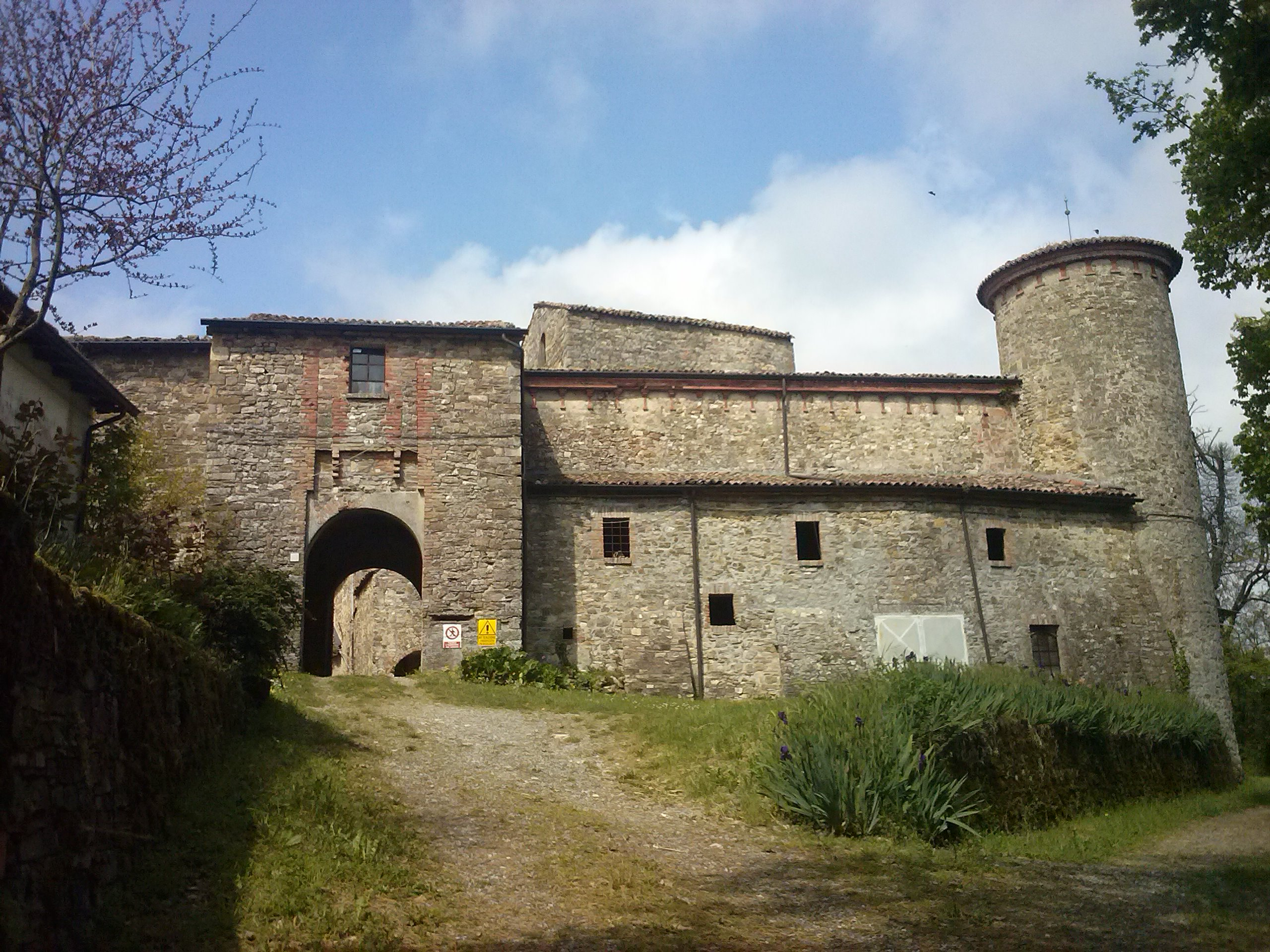 Entrance of Monticello Castle, municipality of Gazzola, Piacenza, Italy